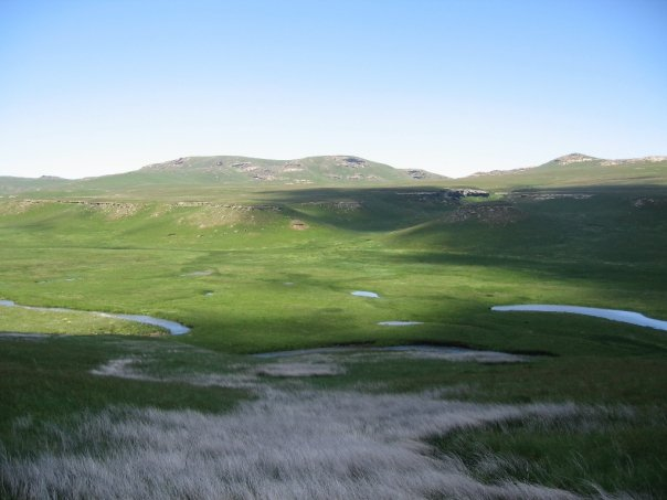 Sehlabathebe grassland